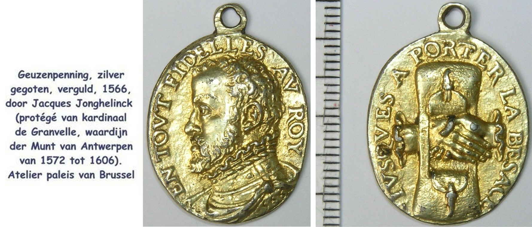 Gold-plated silver Geuzenpenning made by Jacob Jonghelinck in 1566.